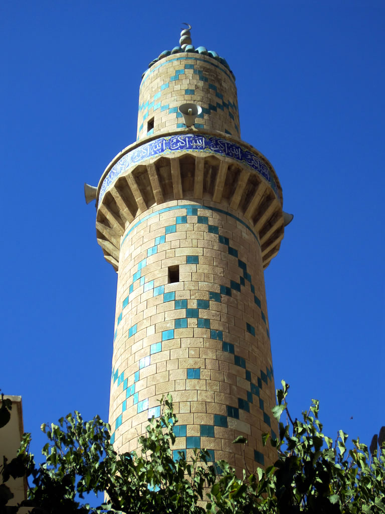 The minaret of the Grand Mosque in the center of Dohuk's bazaar.